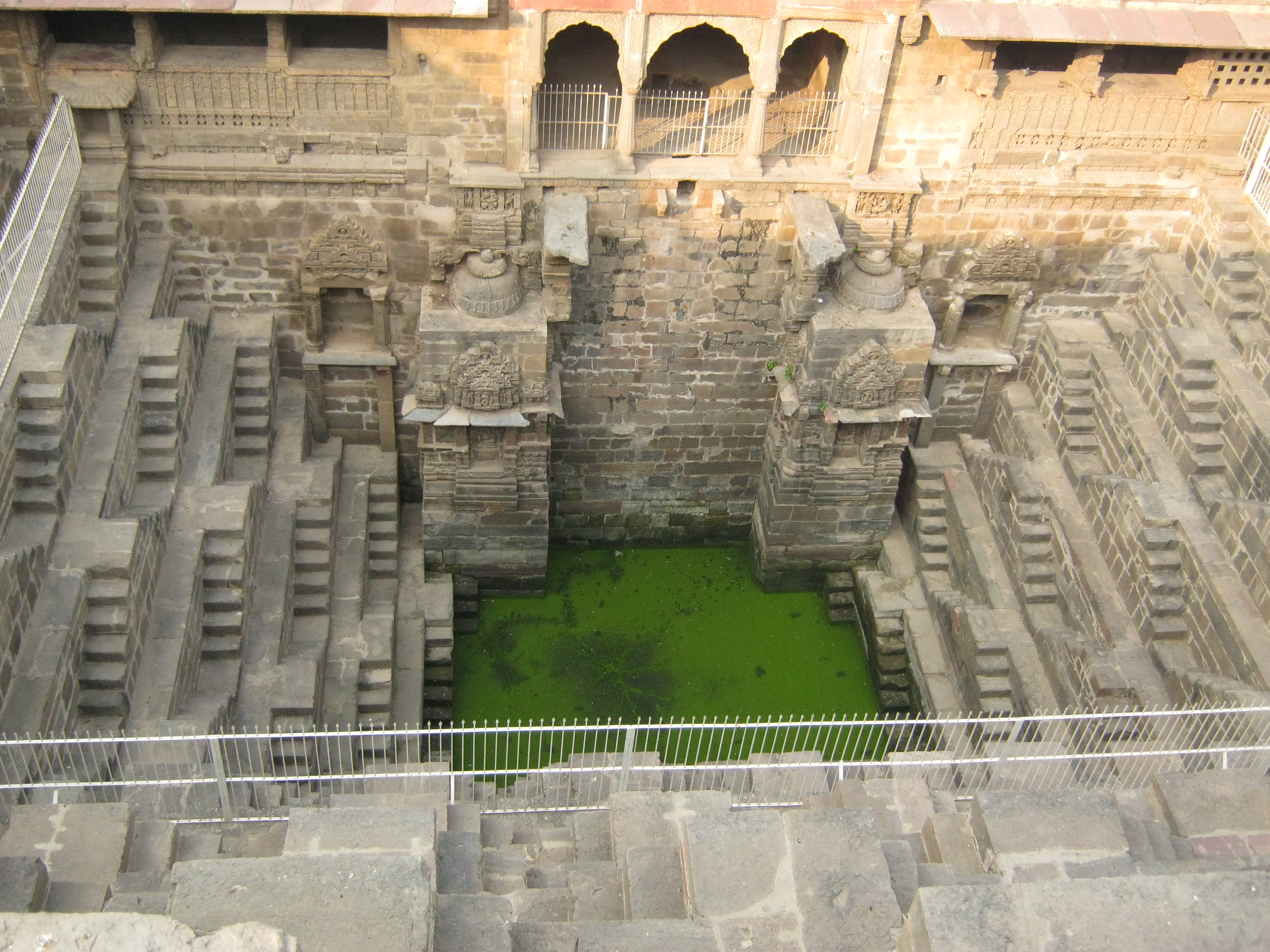 Chand Baori